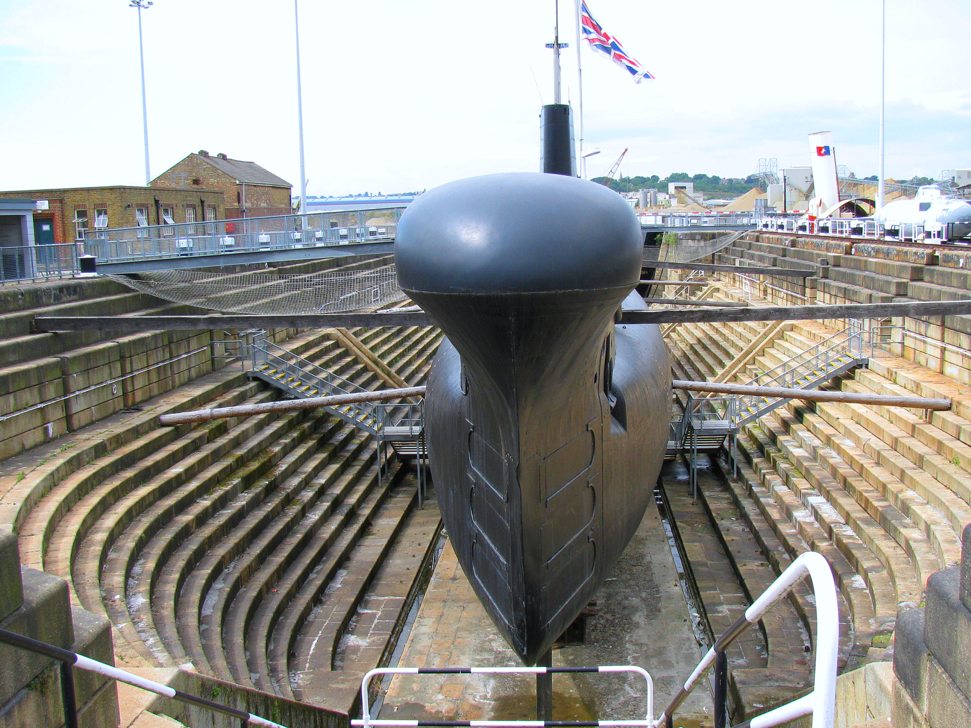 Number 3 Dry Dock